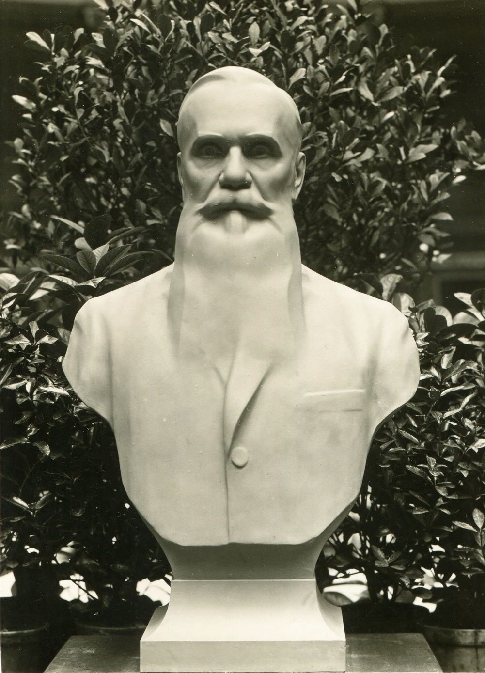 György Vastagh, Senior. Sculptor: László Vastagh.